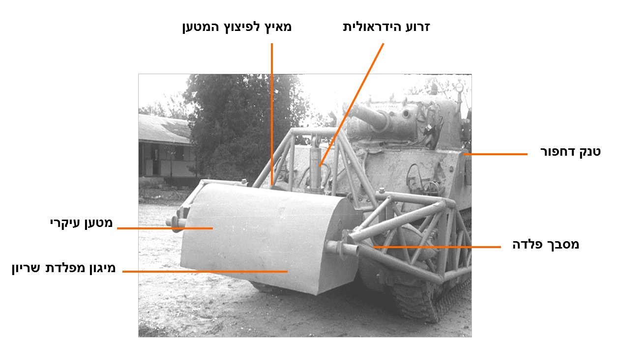 Explosive device for breaching walls